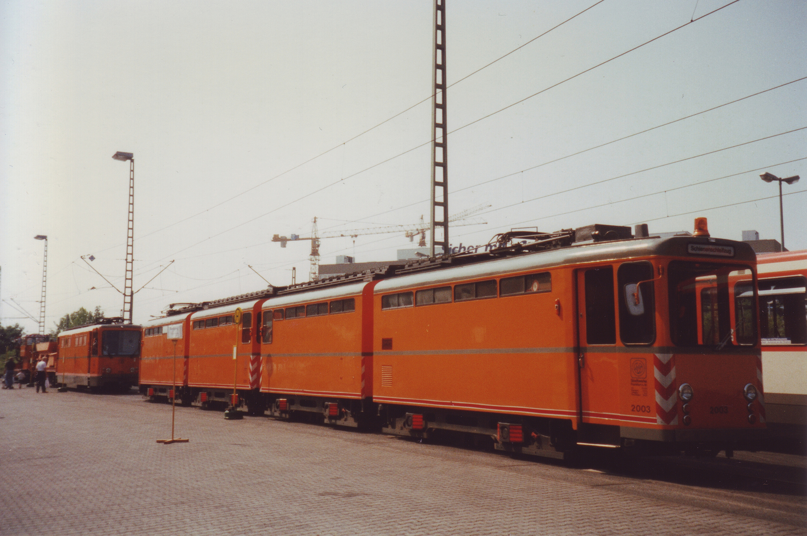 track grinding railcar 2003 at the Stadtbahnzentralwerkstatt in Frankfurt am Main-Rödelheim, June 1997